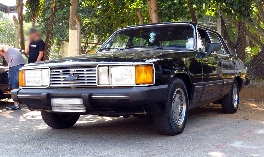 1985-1987 Chevrolet Diplomata 4.1